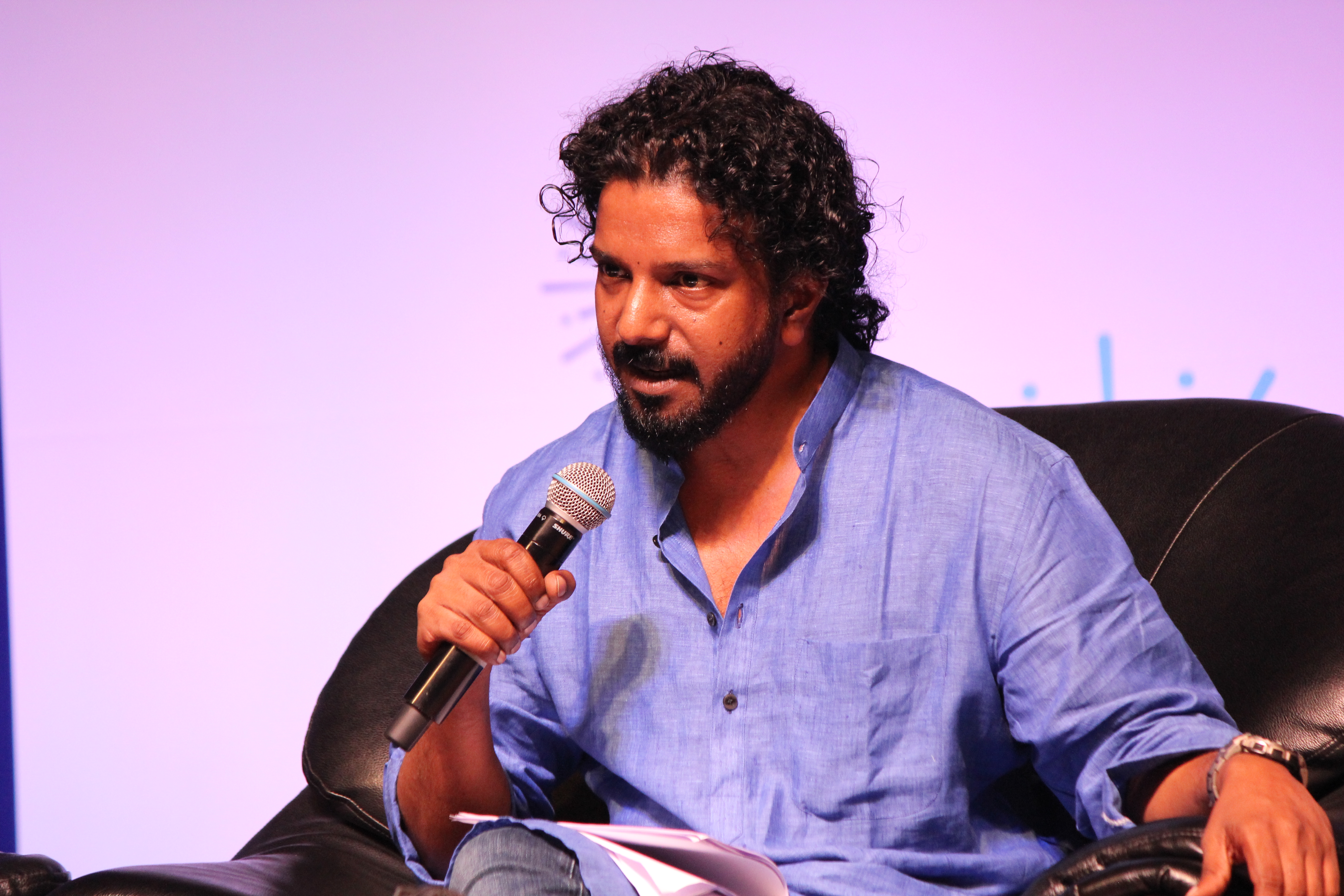 Shaj Mohan, Philospher, speaking at Manthan Samvad in Hyderabad, 2019